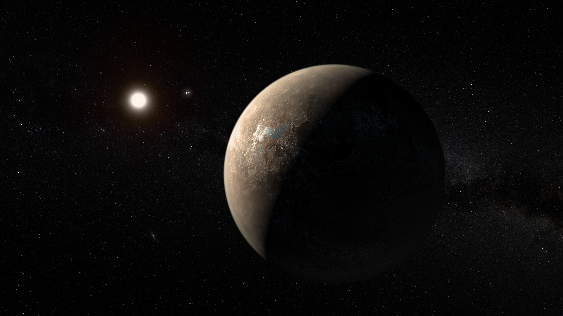 Artist's impression of the exoplanet Proxima Centauri b shown as of a arid (but not completely water-free) rocky Super-Earth. This appearance is one of several possible outcomes of current theories regarding the development of this exoplanet, while the actual look and structure of the planet is known in no ways at this time. Proxima Centauri b is the closest exoplanet to the Sun and also the closest potentially habitable exoplanet as well. It orbits Proxima Centauri, a red dwarf with a surface temperature of 3040 K (thus hotter than light bulbs and therefore whiter, as depicted here). The Alpha Centauri binary system is shown in the background.